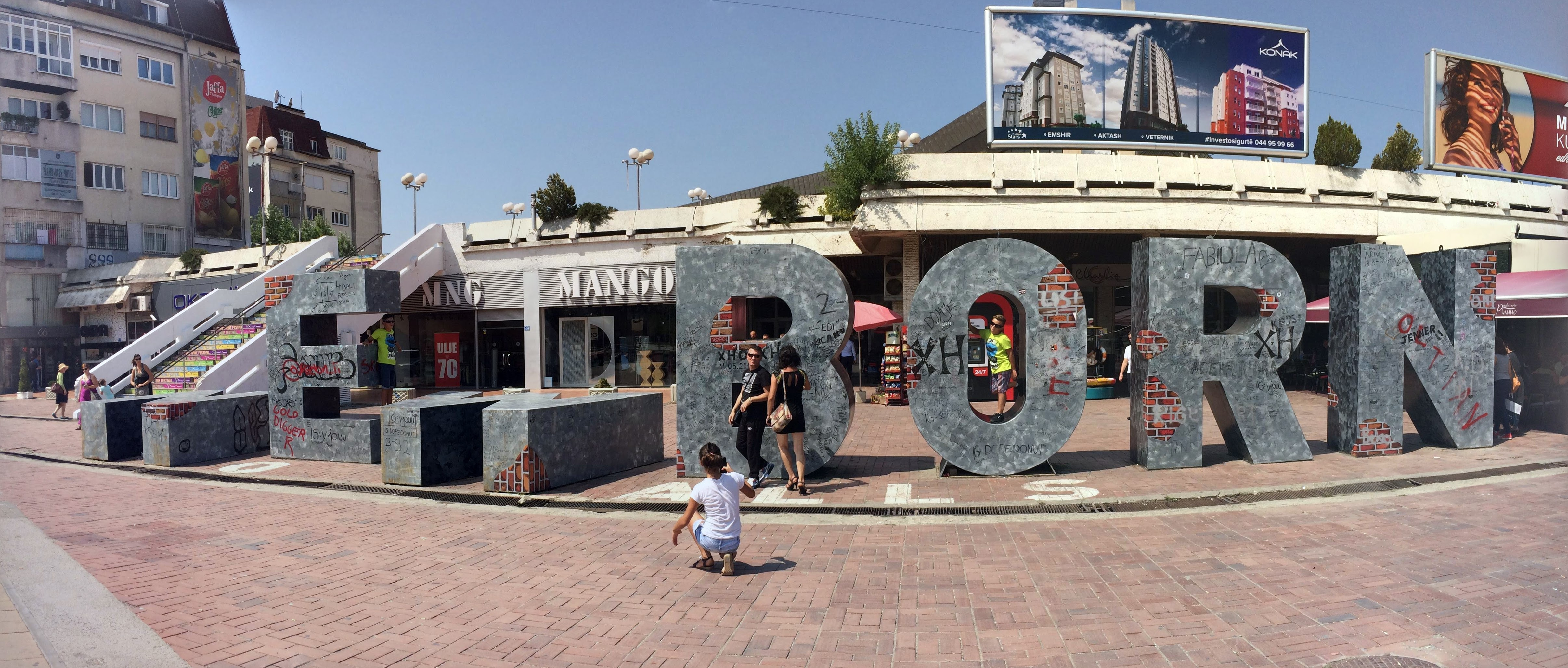 Newborn Monument 2017